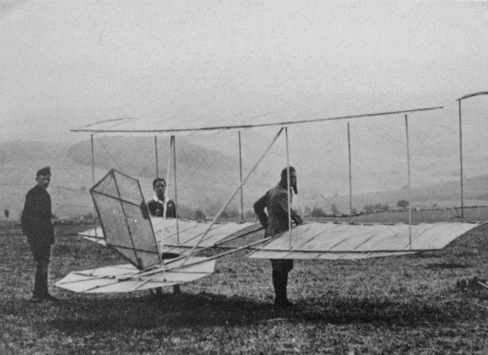 Willi Pelzner, ready for launch with his hang glider (c.1920). Wasserkuppe/Rhoen, Germany, probably during the first Rhön meeting mid-July to end of August 1920. Cf Simons Sailplanes 1920-45 pp.7-10.